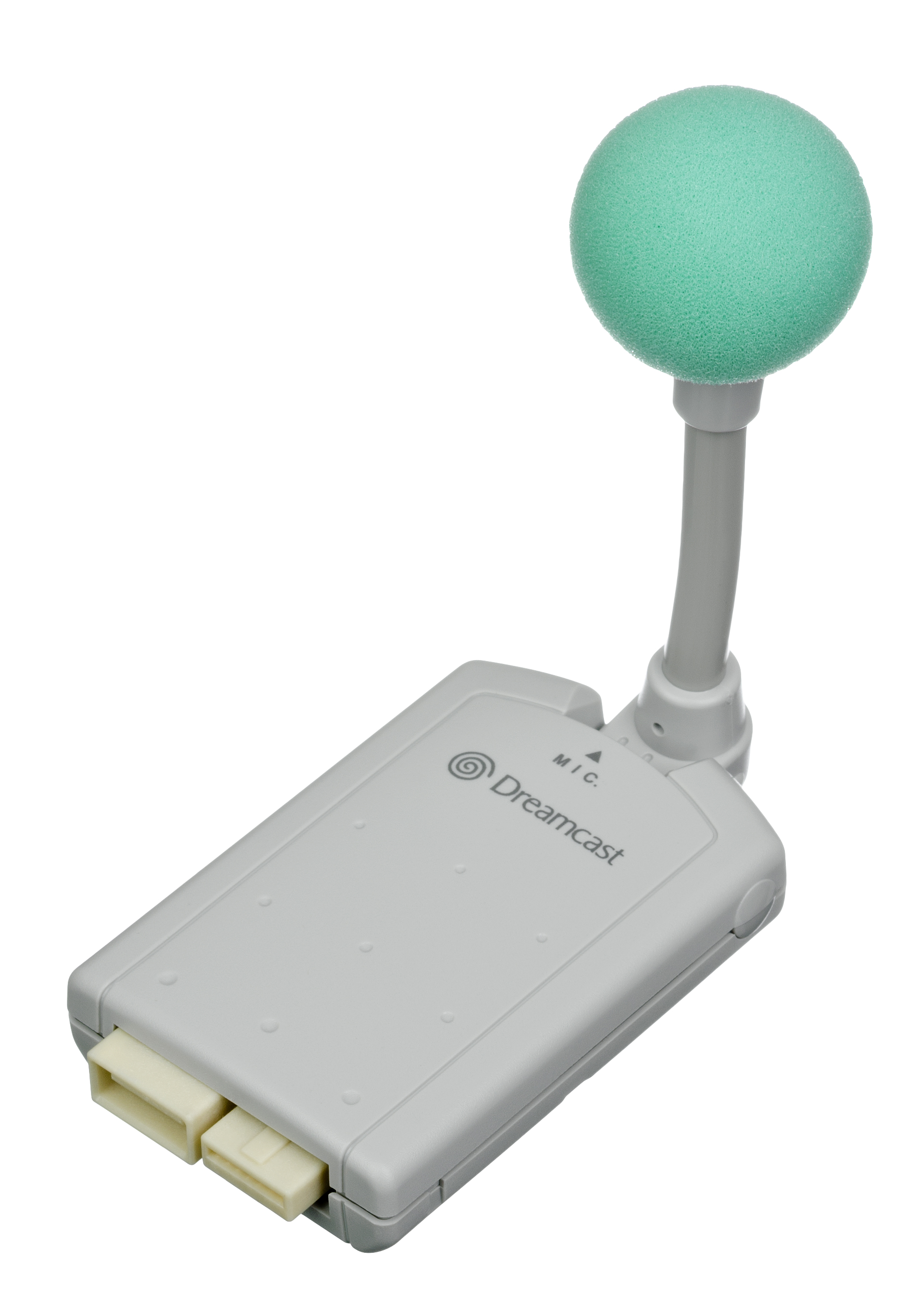 An official microphone accessory for the Sega Dreamcast video game console. Used by just a few games like Seaman and Alienfront Online, it plugs into the accessory slot of the Dreamcast controller.